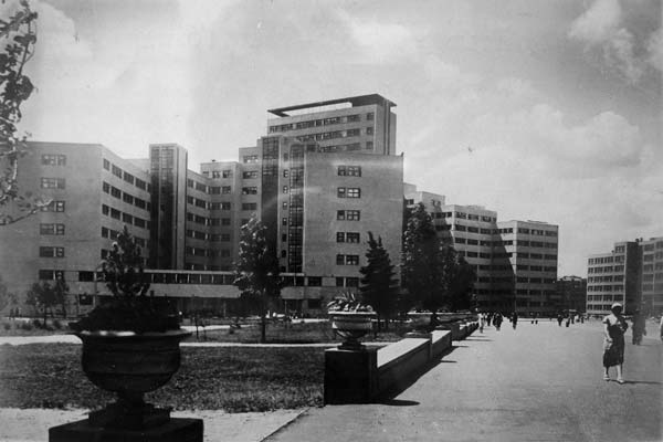 House of Projects in Kharkov (Домпроектострой). Poscard of the USSR